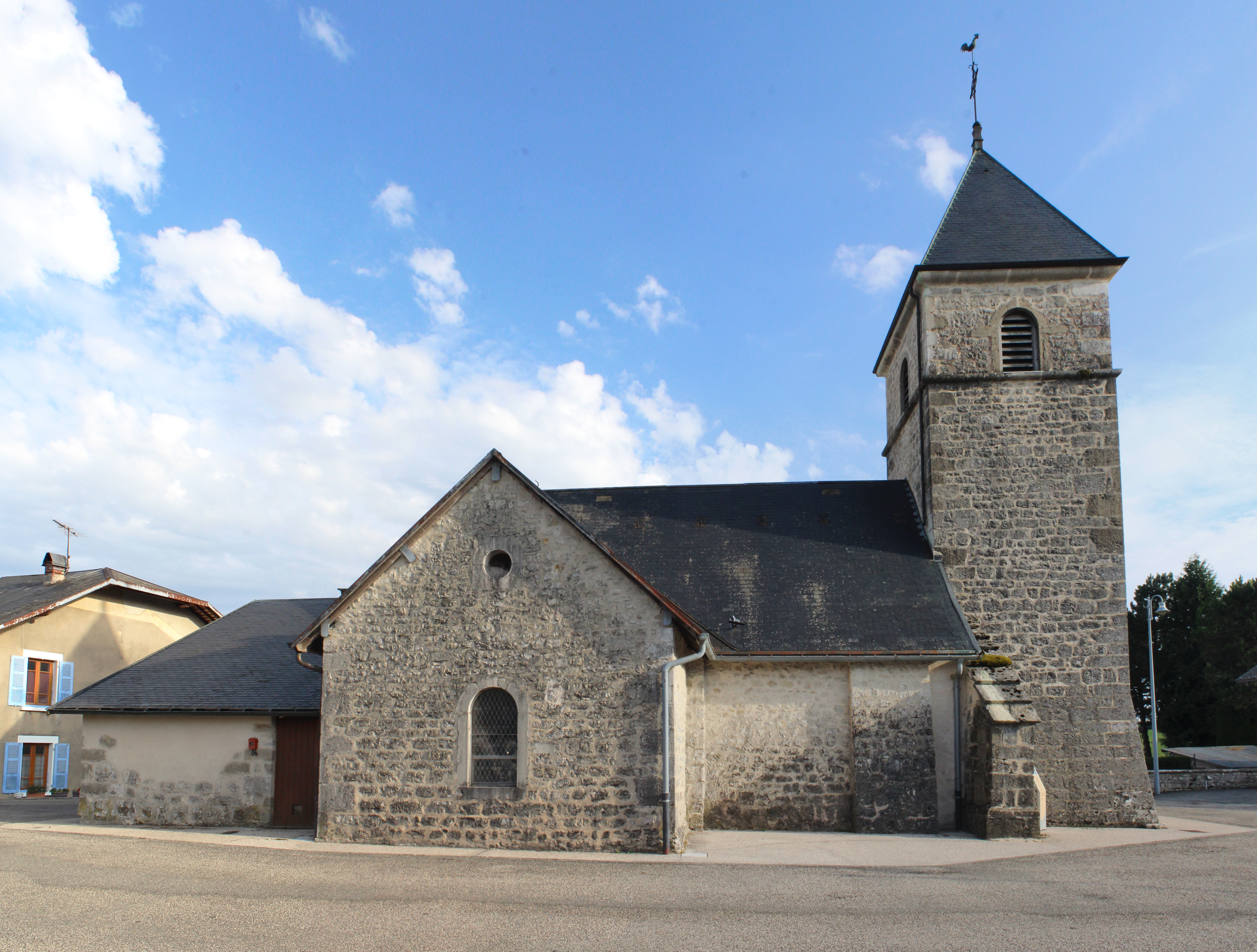 Unknown language: Église Sainte-Agathe de Corlier.